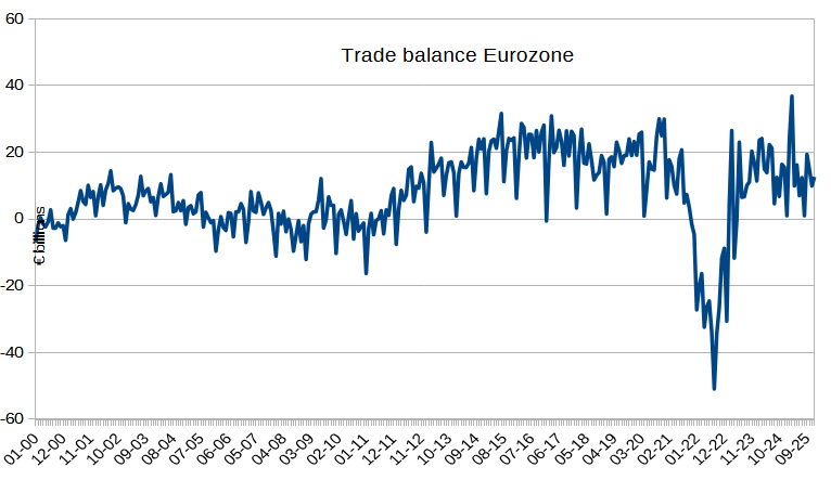 Graph of montly trade balance figures of the Eurozone, in billions of euros, used in Handelsbalans, to be updated monthly, source: Eurostat